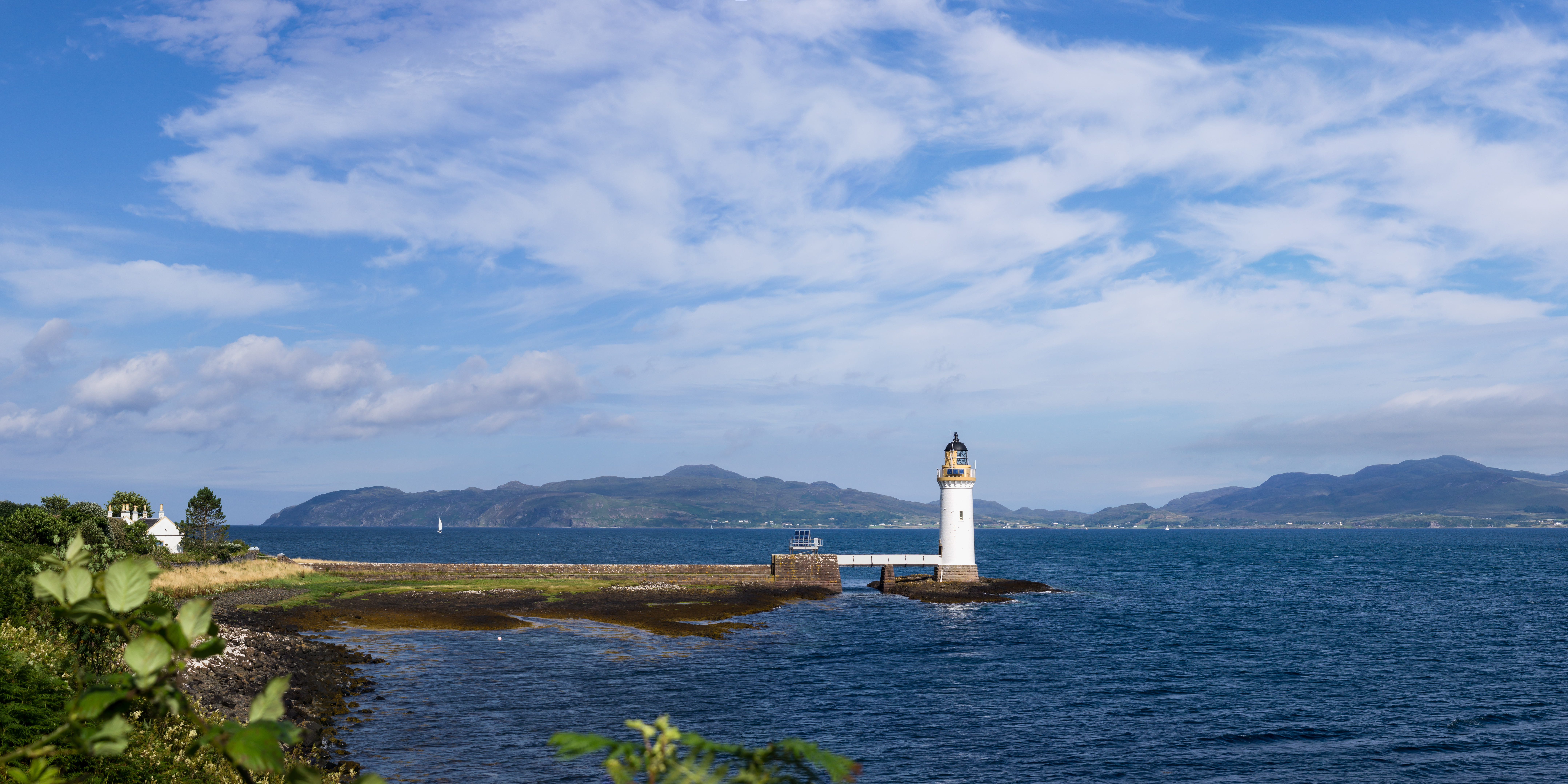 Looking from the Isle of Mull towards Kilchoan on the Ardnamurchan peninsula. Rubha nan Gall lighthouse, at 18.9m tall, was built in 1857 by David and Thomas Stevenson and automated in 1960.